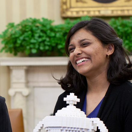 President Barack Obama congratulates Google Science Fair winners, from left, Naomi Shah, Shree Bose, and Lauren Hodge in the Oval Office, Oct. 3, 2011. (Official White House Photo by Pete Souza) This photograph is provided by THE WHITE HOUSE as a courtesy and may be printed by the subject(s) in the photograph for personal use only. The photograph may not be manipulated in any way and may not otherwise be reproduced, disseminated or broadcast, without the written permission of the White House Photo Office. This photograph may not be used in any commercial or political materials, advertisements, emails, products, promotions that in any way suggests approval or endorsement of the President, the First Family, or the White House. Ê